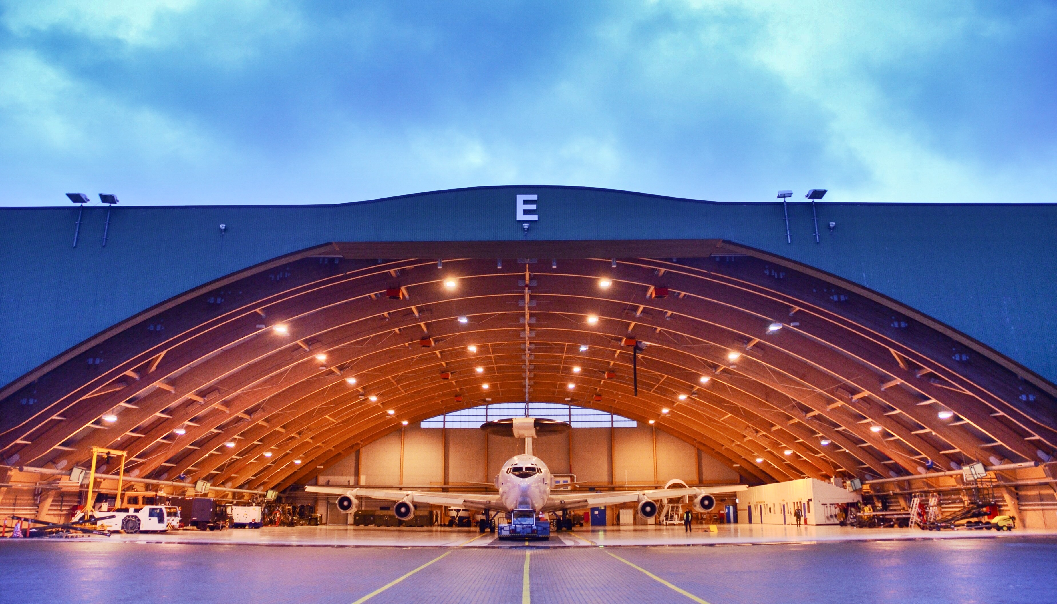 A NATO AWACS from the E-3A Component sits inside a hangar Nov. 19, 2013, at Forward Operating Location Ørland, Norway. (Photo by Staff Sgt. R. Michael Longoria)